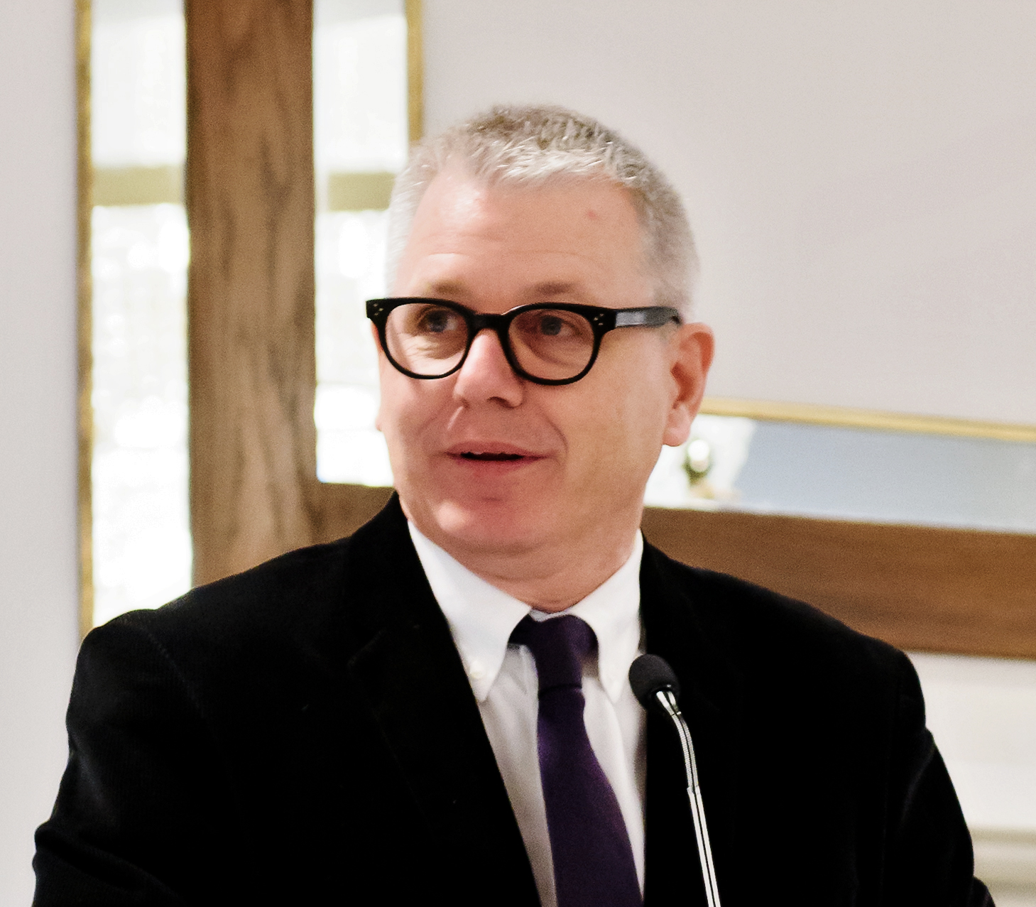 Adam Vaughan at the 2017 Homelessness Summit